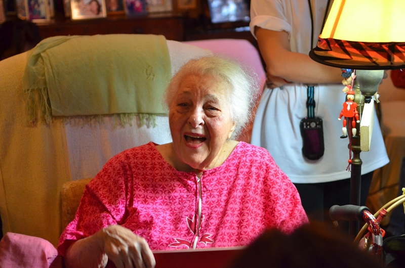 WikiExpedition: Santa Ana 040 Jessie Lichauco in September 2014, entertaining participants of the 2014 WikiExpedition Santa Ana